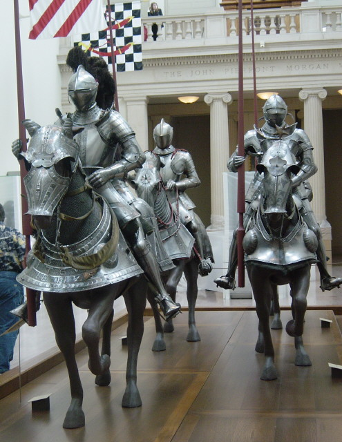 Medieval armors in Metropolitan Museum of Art in New York City.